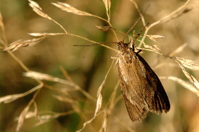 Picture taken in Commanster, Belgian High Ardennes . Species: Diurnea lipsiella